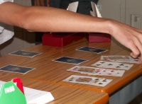 Playing Bridge